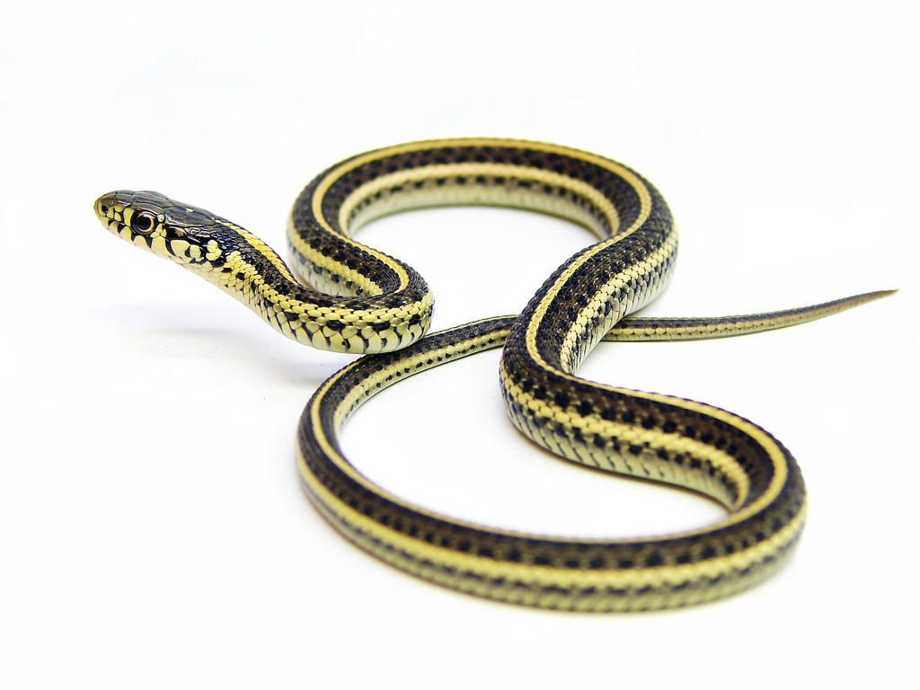 Jessie's juvenile western plains garter snake, Thamnophis radix haydeni. His/her name is Poledancer.